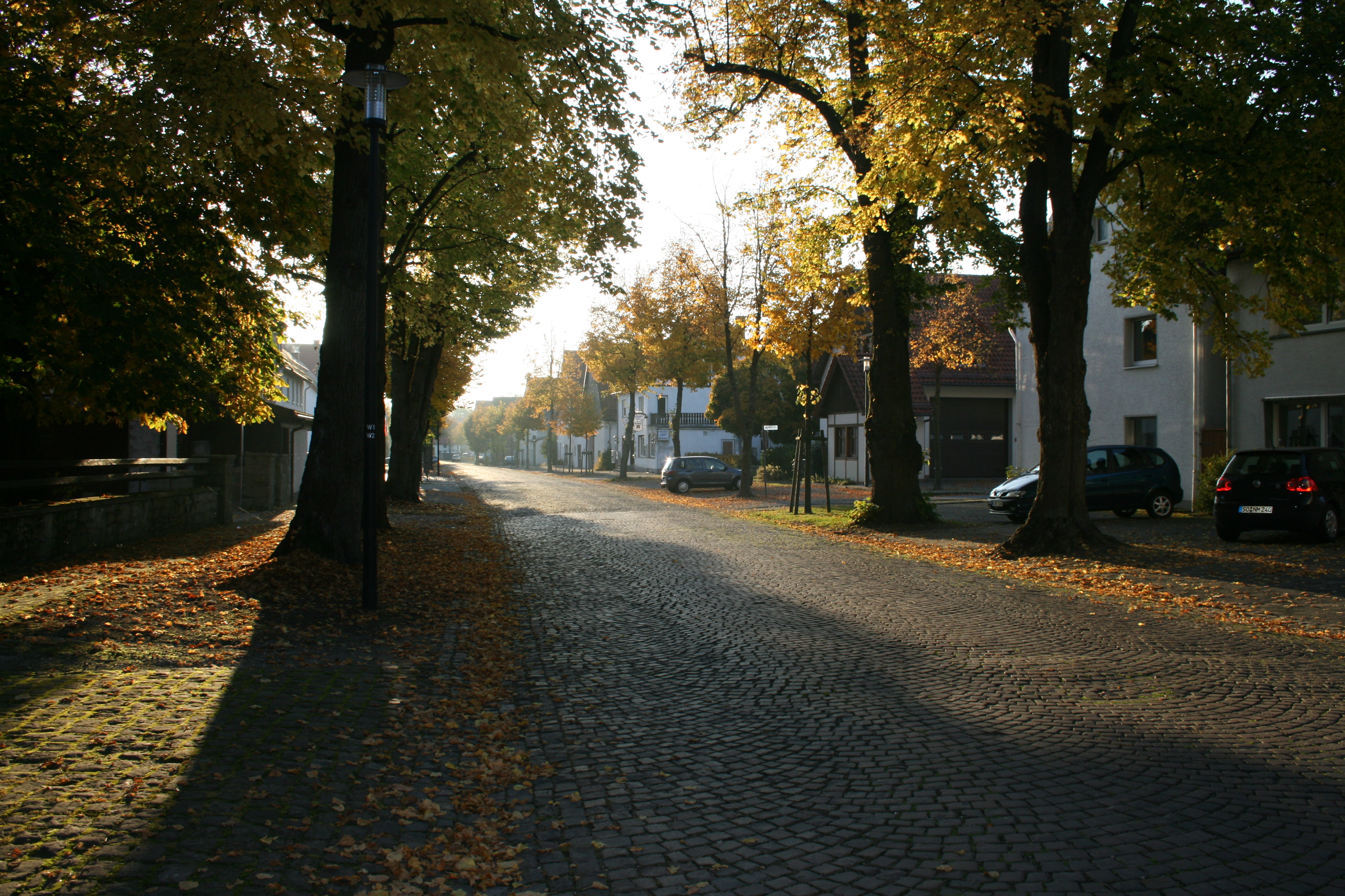 Mainstreet Weiberg